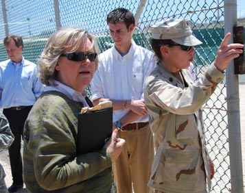 Anne-Marie Lizin, President of the Belgian Senate, visits Guantanamo